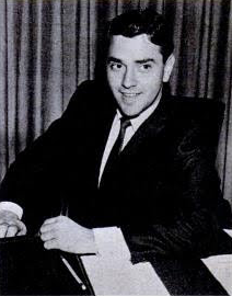 Casablanca Records' president Neil Bogart.